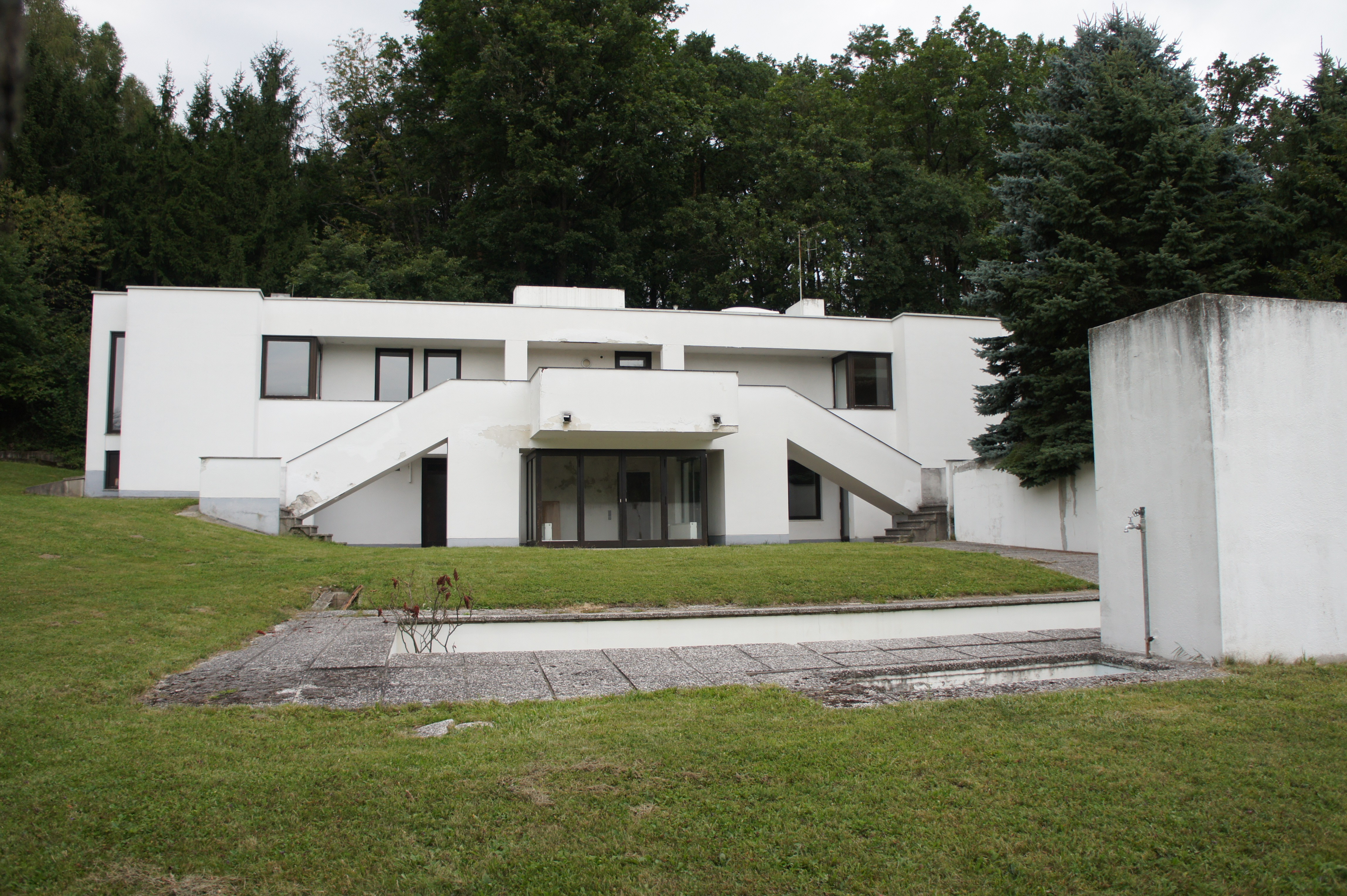 Residential house Dellacher, Oberwart, Austria